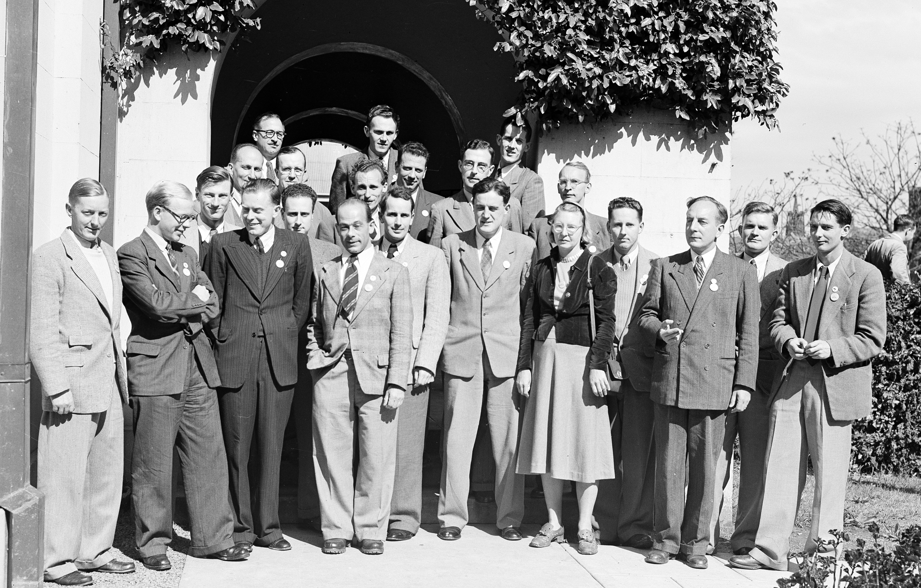 International Union of Radio Science conference at the University of Sydney, photo likely taken 11 August 1952.Front row (left to right): "Chris" Christiansen, F. Graham Smith (UK), Bernard Y. Mills, Steven F. Smerd, C.A. Shain, R. Hanbury Brown (UK), Ruby Payne-Scott, Alec Little, Marc Laffineur (France) and John G. Bolton. Second row: Paul Wild, J.L. Steinberg, James V. Hindman, Frank J. Kerr, C.A. Muller (Netherlands) and O. Bruce Slee.Third row: Charles S. Higgins, J.P. Hagen (USA) and Harold I. Ewen (USA).Back row: Jack Hobart Piddington, Eric R. Hill and Lou W. Davies.Unless otherwise noted, individuals are Australian. ATNF Historical Photographic Archive: B2842-43.